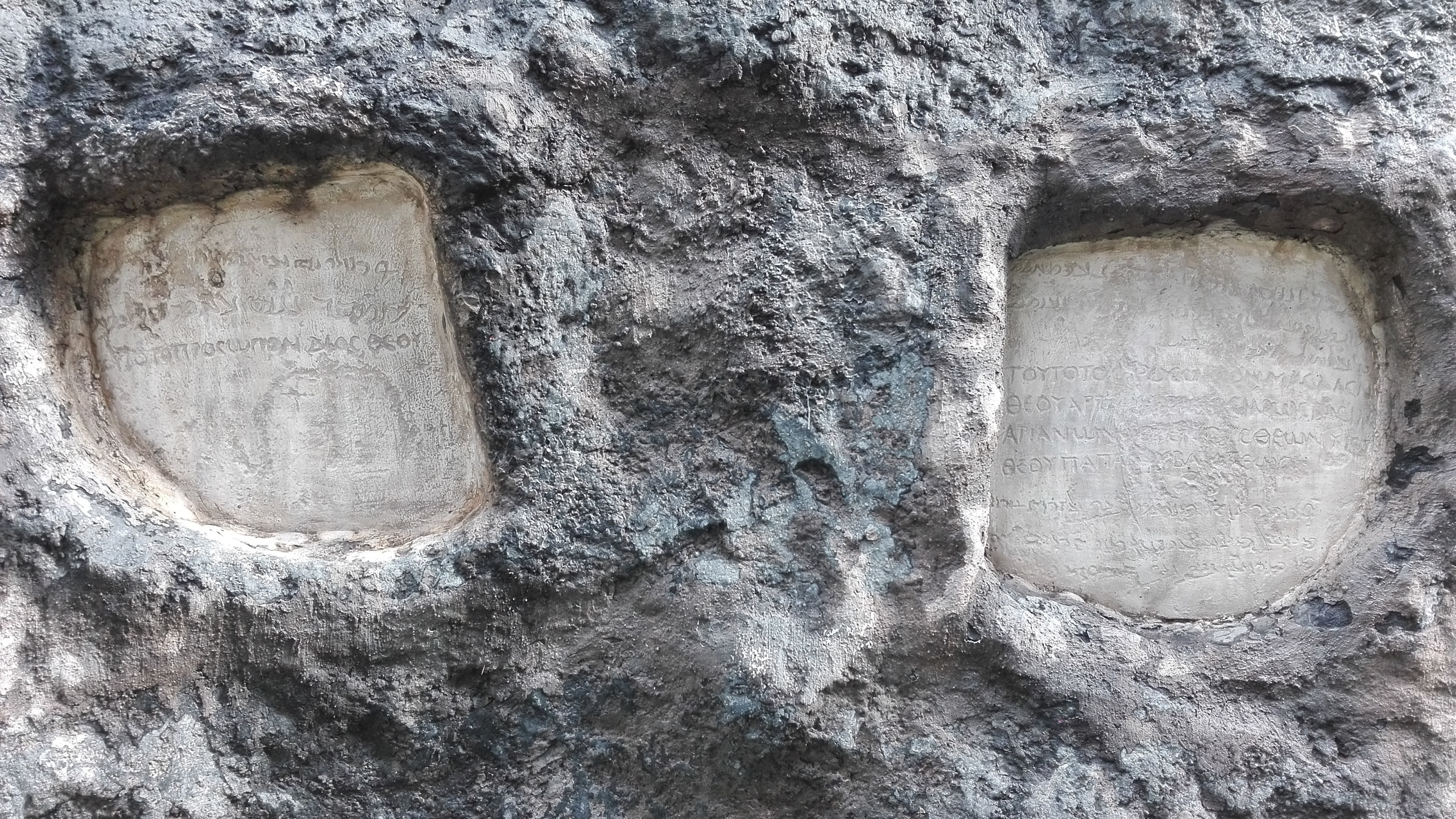 taken in inscription garden, Tehran